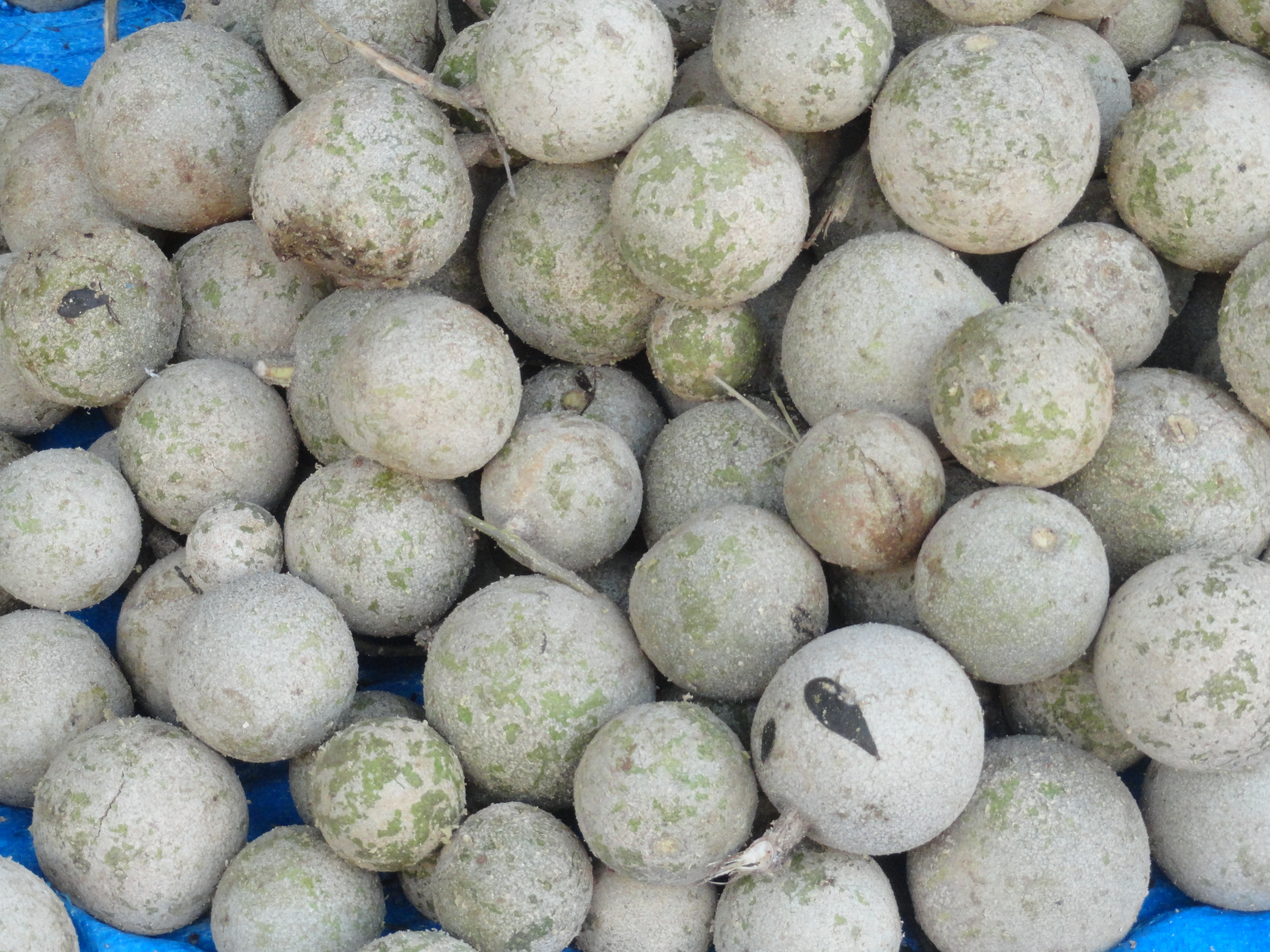 వెలగ కాయలు అమ్మకానికి వనస్థలిపురంలో. వినాయక చవితికి